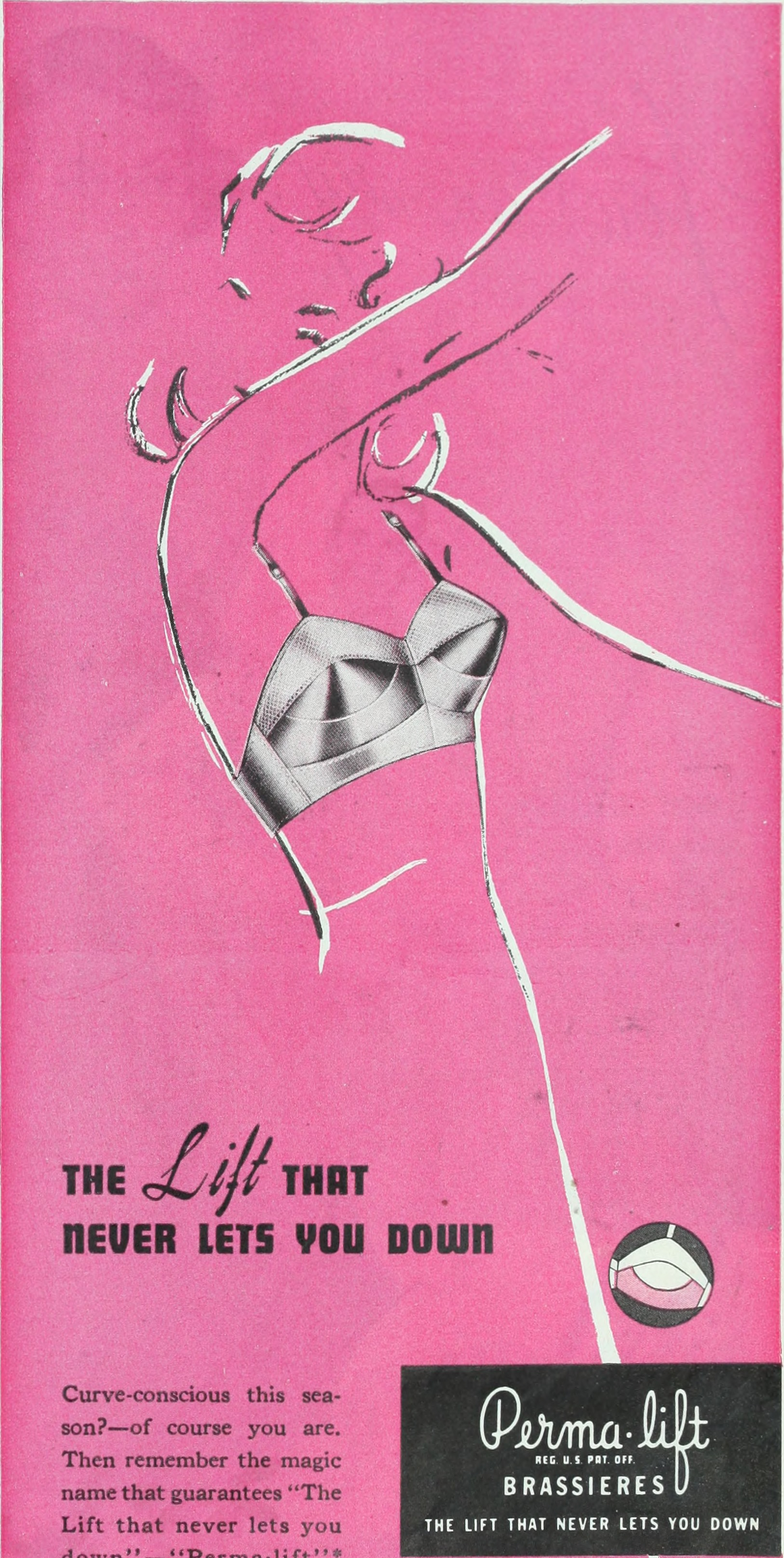 Title: The Ladies' home journal Year: 1889 (1880s) Authors: Wyeth, N. C. (Newell Convers), 1882-1945 Subjects: Women's periodicals Janice Bluestein Longone Culinary Archive Publisher: Philadelphia : (s.n.) Text Appearing Before Image: onal education. To thetraditional professions of law and medicine,modern society has added many others:engineering, architecture and various scien-tific and scholarly activities. All these requirelong periods of training which can be givenin only a relatively few centers in each state.In addition, we recognize the need forspecialized education beyond the highschool for those who are to staff our vastsystem of public education, for those whoare to practice agriculture in a modern way,and for many types of employment in our in-dustries and in government. At this point someone is sure to say:Wait a minute. Im lost. When is a voca-tion a profession? My reply would be, When a university training is a prerequisitefor practice. But definitions aside, it isevident that there are a certain number ofvocations essential for the operation of ourpresent economy, including the recognizedprofessions, all of which can be entered onlyafter at least four years of post-high-school(Continued on Page 111) Text Appearing After Image: '